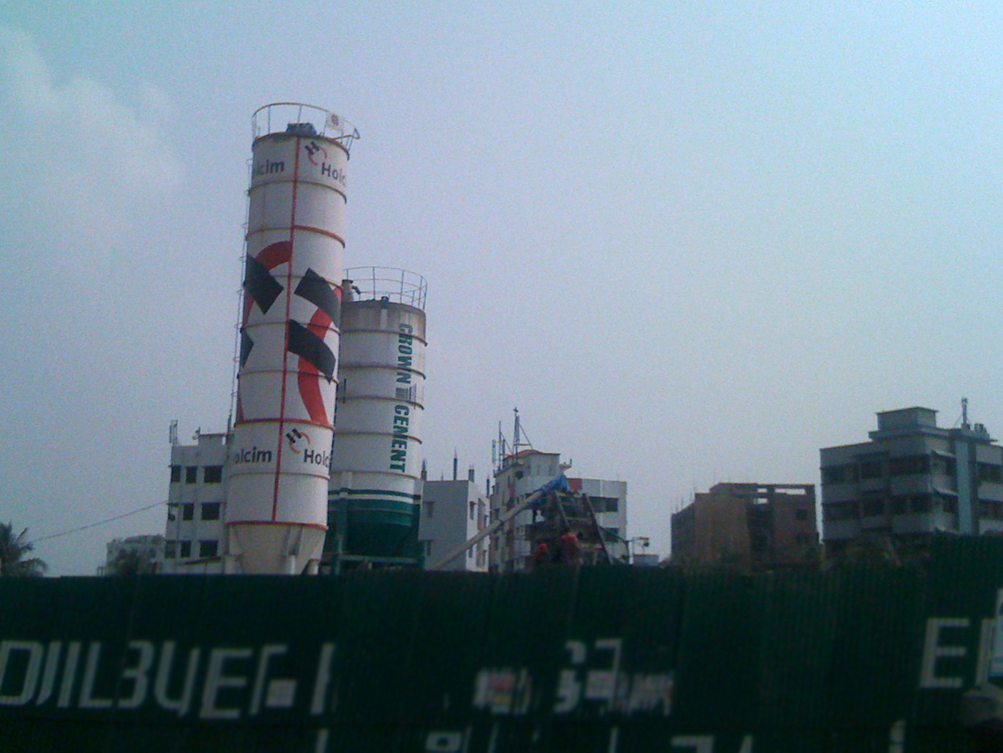 Kuril Flyover construction works (October 2011)